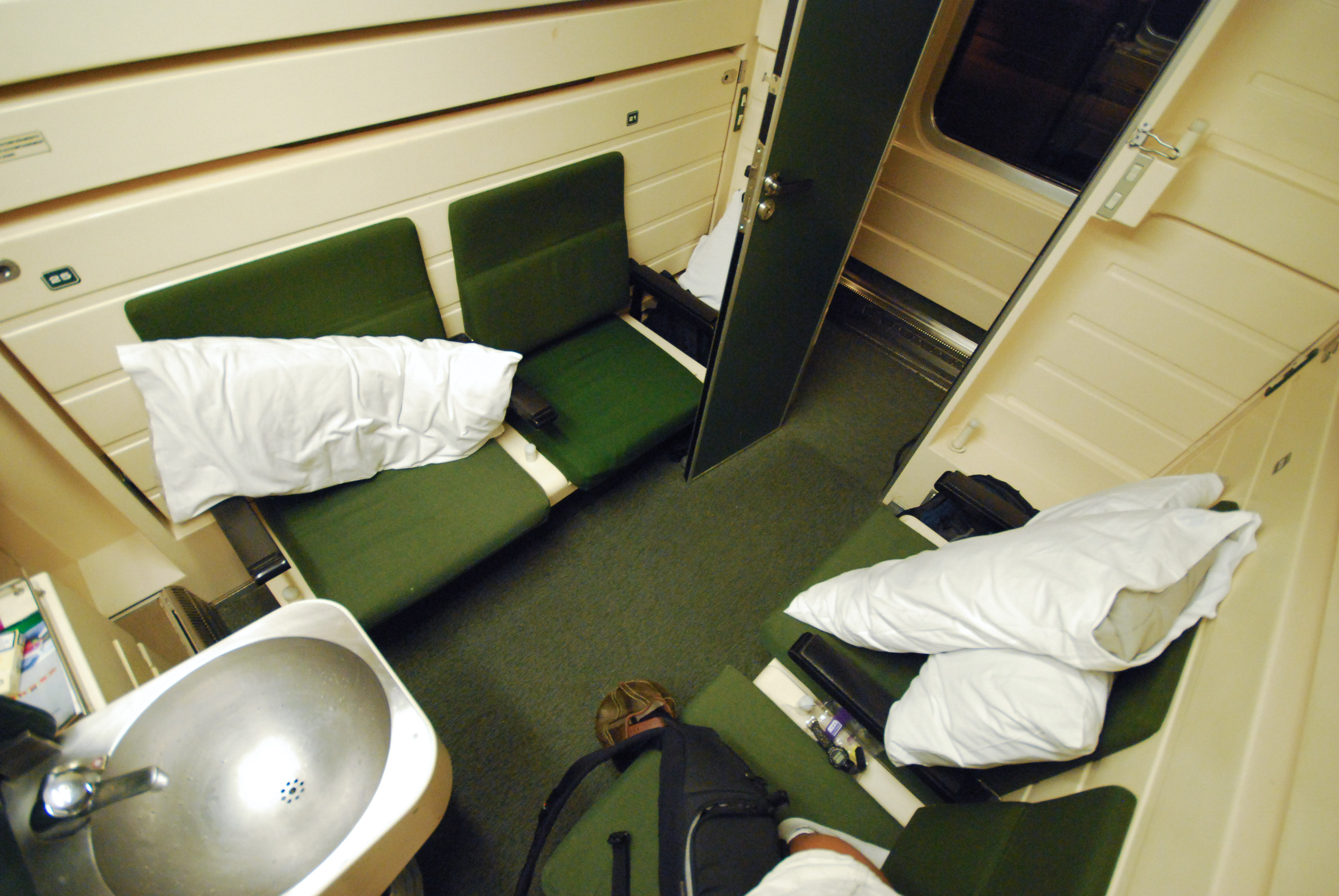 Our cabin before it was converted to a sleeping bunk. As you see, there is room for four people. Unfortunately, my friends and I were only three. The fourth was a smelly French man who hadn't taken a shower for two weeks and who tried to talk to me for hours, despite him not knowing any English and me not knowing any French (Train to Paris, France).